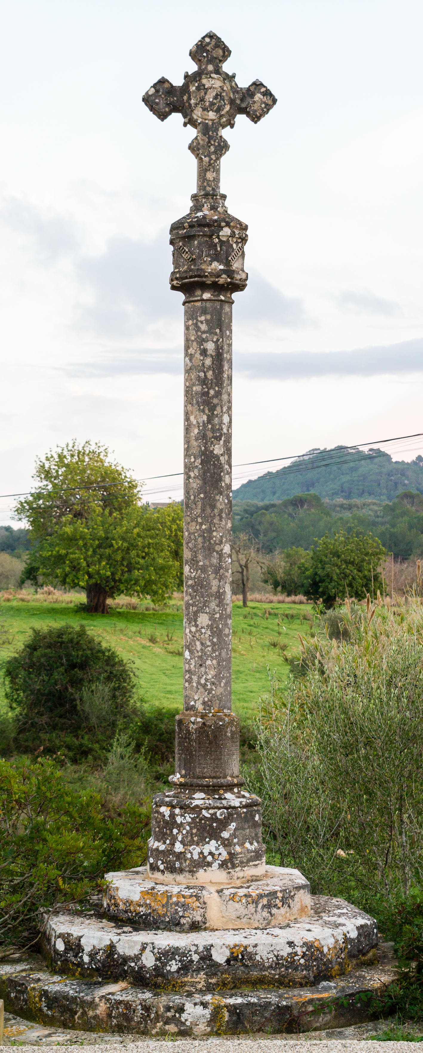 Designation: Creu des Carritxó or Creu de na Galiana Date of protection: 25/09/1998 Category: Monument Typology: Wayside cross Place: Municipality Felanitx, Majorca, Balearic Islands, Spain Location: Ma-14 / Ma-4016